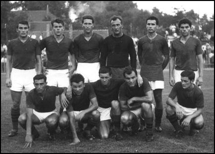 Dorogi Banyasz in 1963